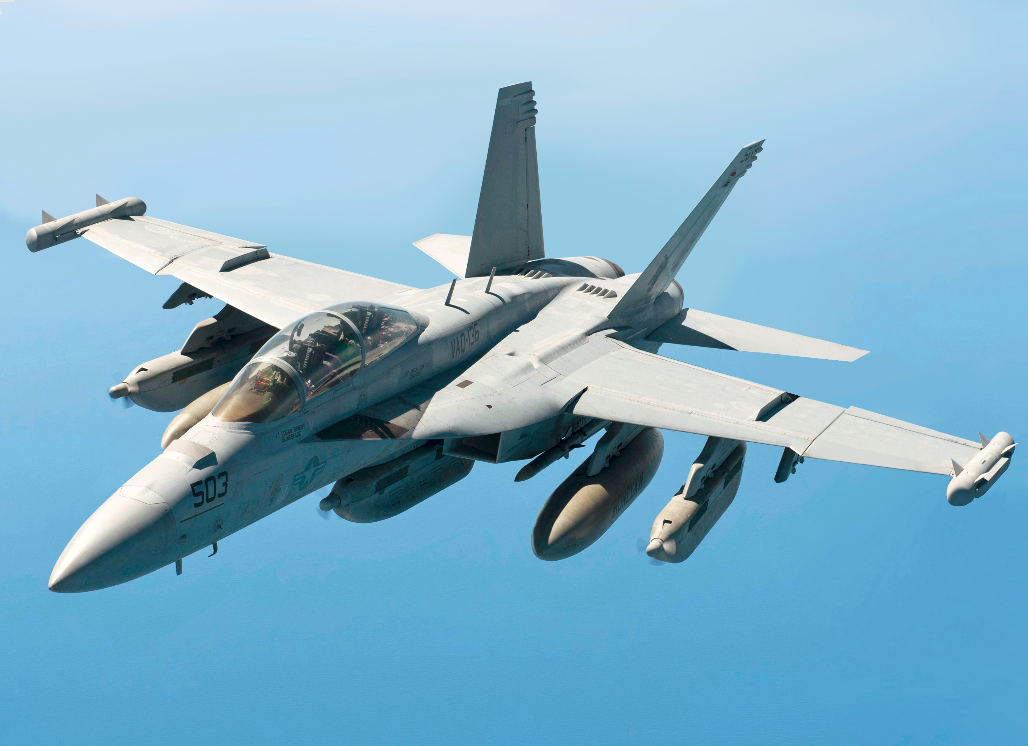 A U.S. Navy EA-18G Growler assigned to the USS Carl Vinson breaks away from a U.S. Air Force KC-135 Stratotanker from the 909th Air Refueling Squadron after conducting in-air refueling May 3, 2017, over the Western Pacific Ocean. The 909th ARS is an essential component to the mid-air refueling of a multitude of aircraft ranging from fighter jets to cargo planes from different services and nations in the region. (U.S. Air Force photo by Senior Airman John Linzmeier)